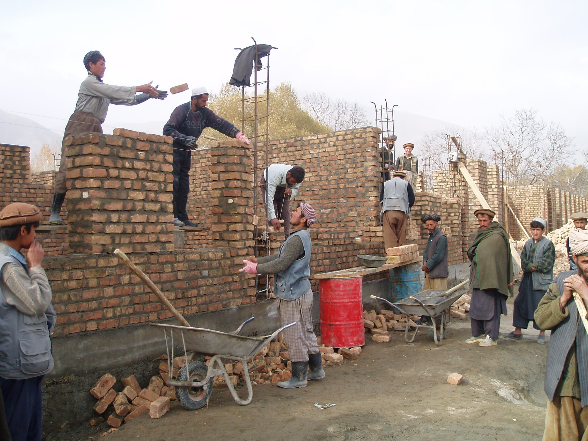 Afghan construction workers building a school in 2005.